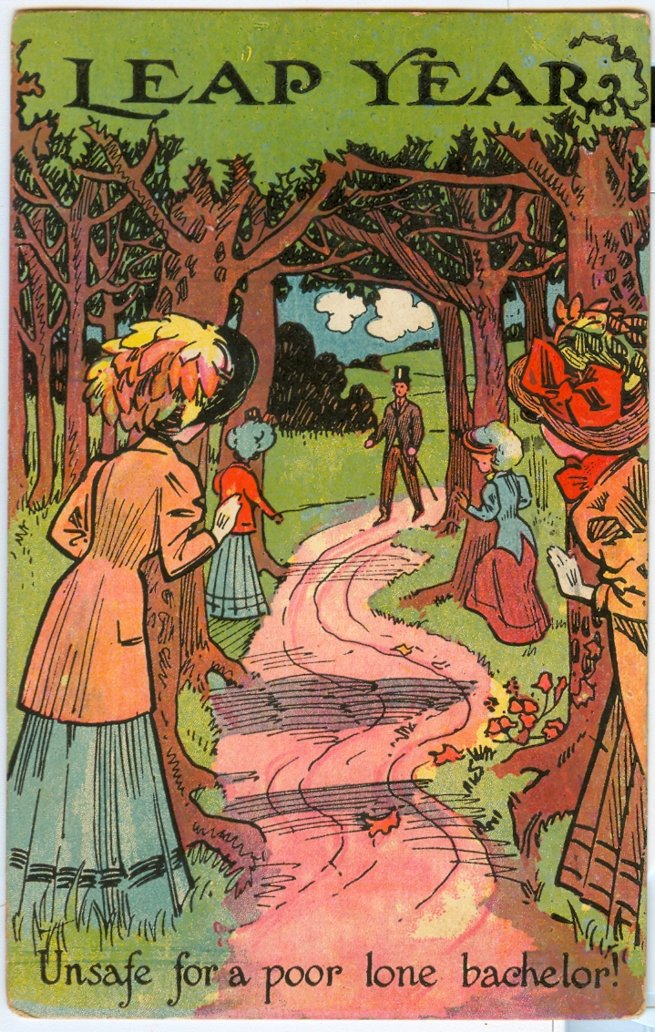 Humorous leap year postcard postmarked in 1908 showing bachelor walking along a path with numerous women lying in wait. Caption: "Leap Year / Unsafe for a poor lone bachelor!" Store Web page states: "Size is about 5½" x 3½""